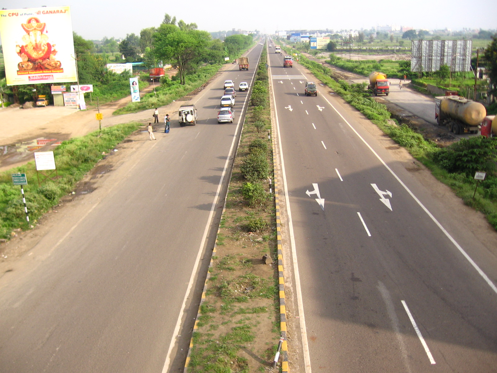 The Pune bypass, part of National Highway 48 (Old NH 4).